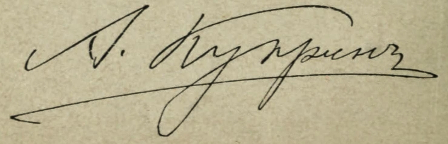 Signature of Alexander Kuprin